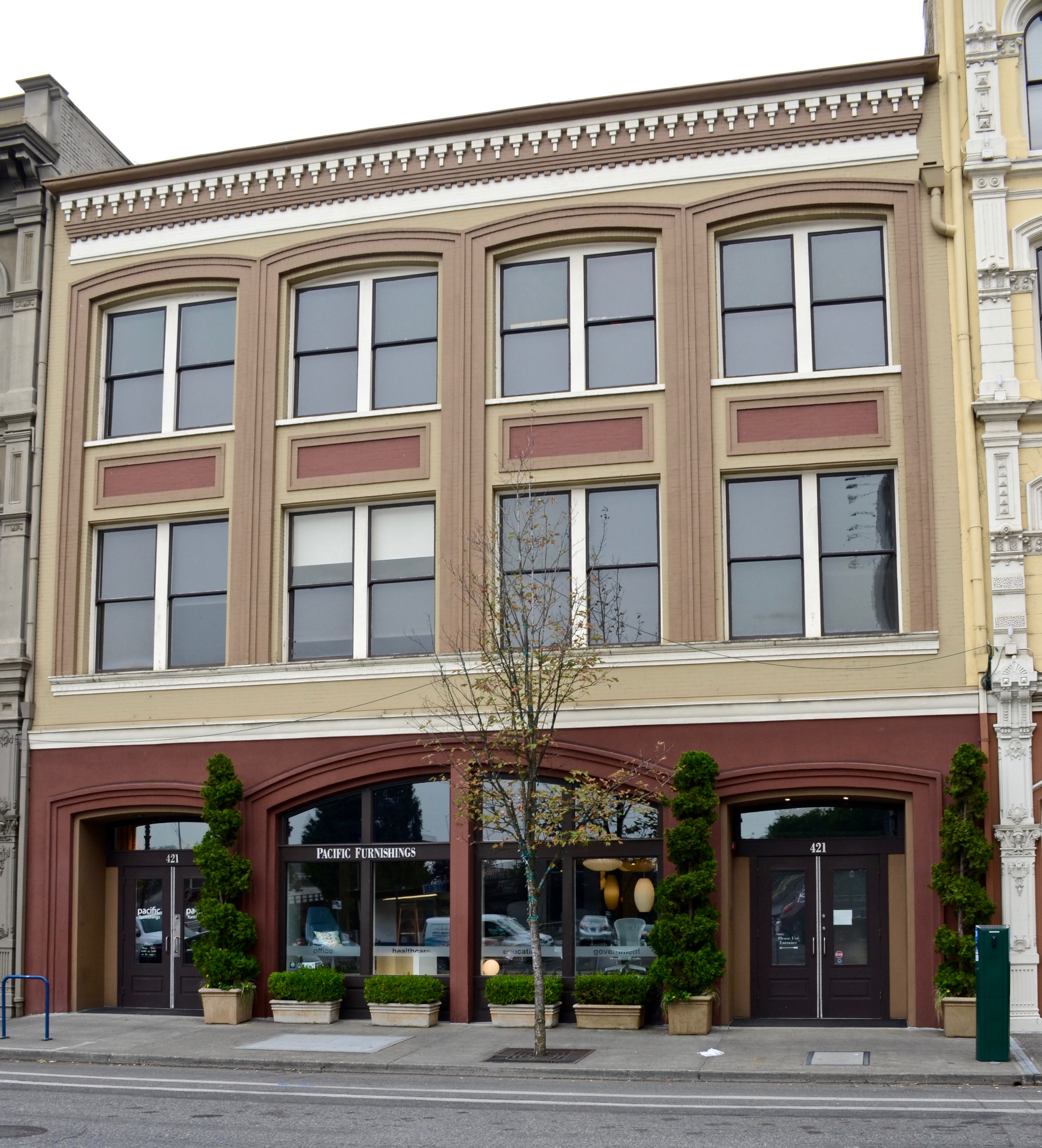 The unnamed, 1894-built commercial building at 421 SW 2nd Avenue, in downtown Portland, Oregon, is adjacent to the 1887 Grand Stable & Carriage Co. Building, and the pair of buildings are jointly listed on the U.S. National Register of Historic Places, as Grand Stable Building and Adjacent Commercial Building. At the time of its listing on the NHRP, in 1982, this three-story building was owned by the Pacific Stationery Company, who since 1962 had been using it as an annex to the adjoining Grand Stable Building, in which the company's stationery store was housed.